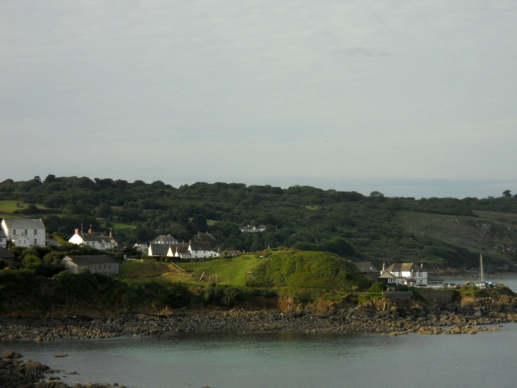 coverack, cornwall